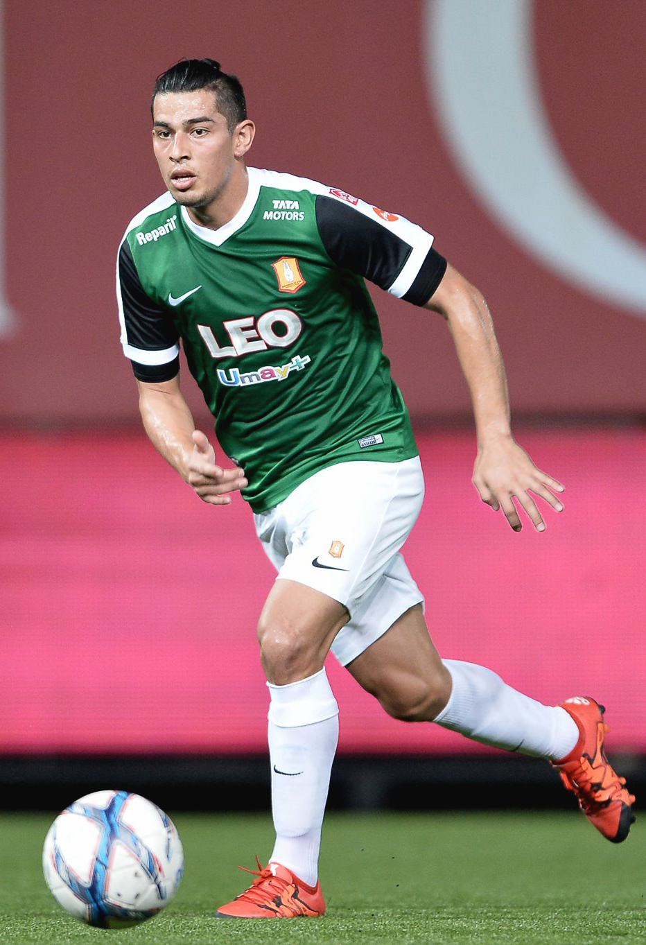 Ariel Rodríguez, Costa Rican footballer.